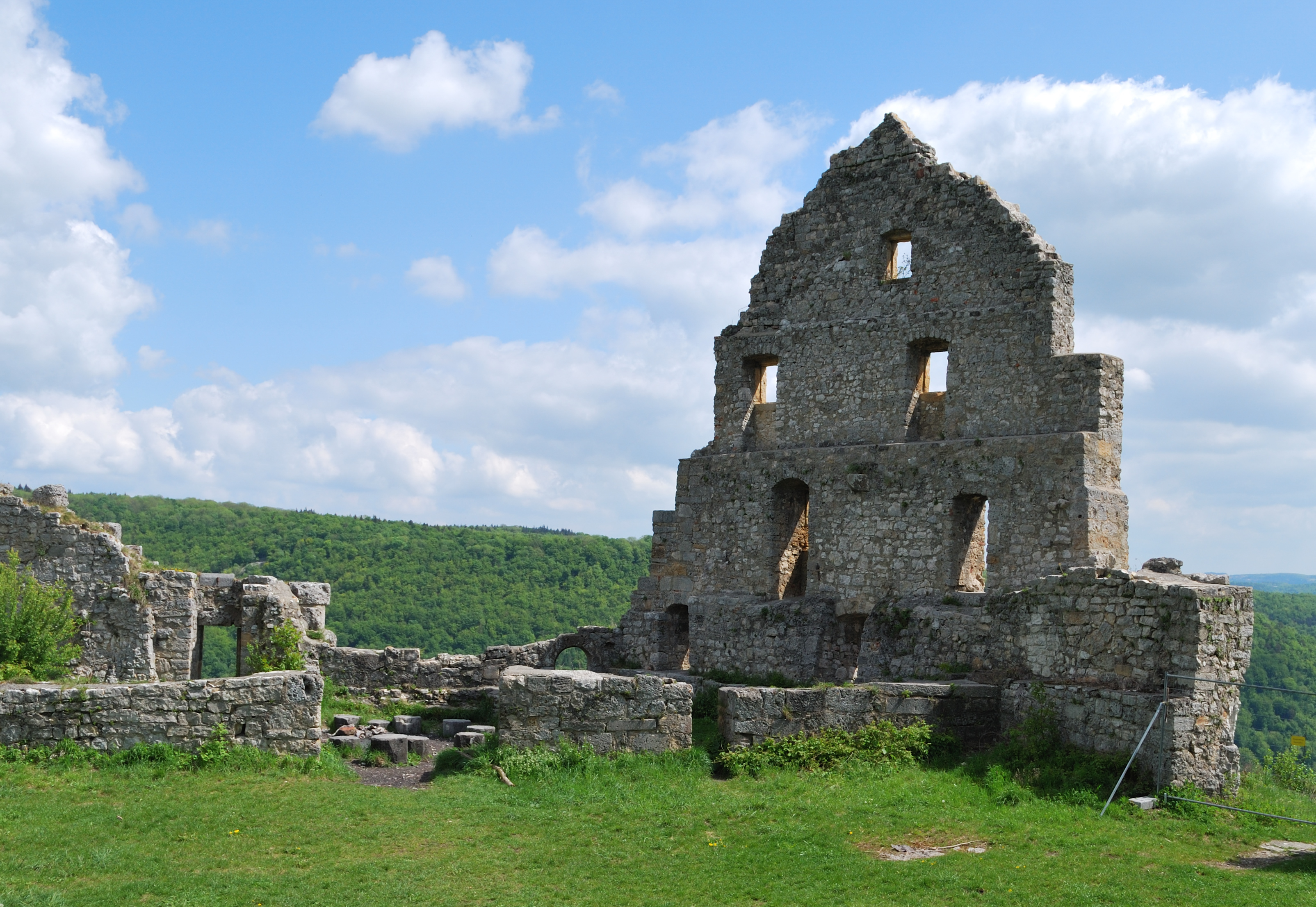 Wall remains on the castle ruin Hohenurach in Swabian Jura in the German Federal State Baden-Württemberg.